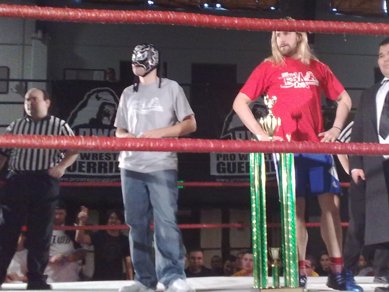 Professional wrestlers Chris Hero (right) and Excalibur (left) in the ring at Pro Wrestling Guerrilla's Battle of Los Angeles in November 2008.